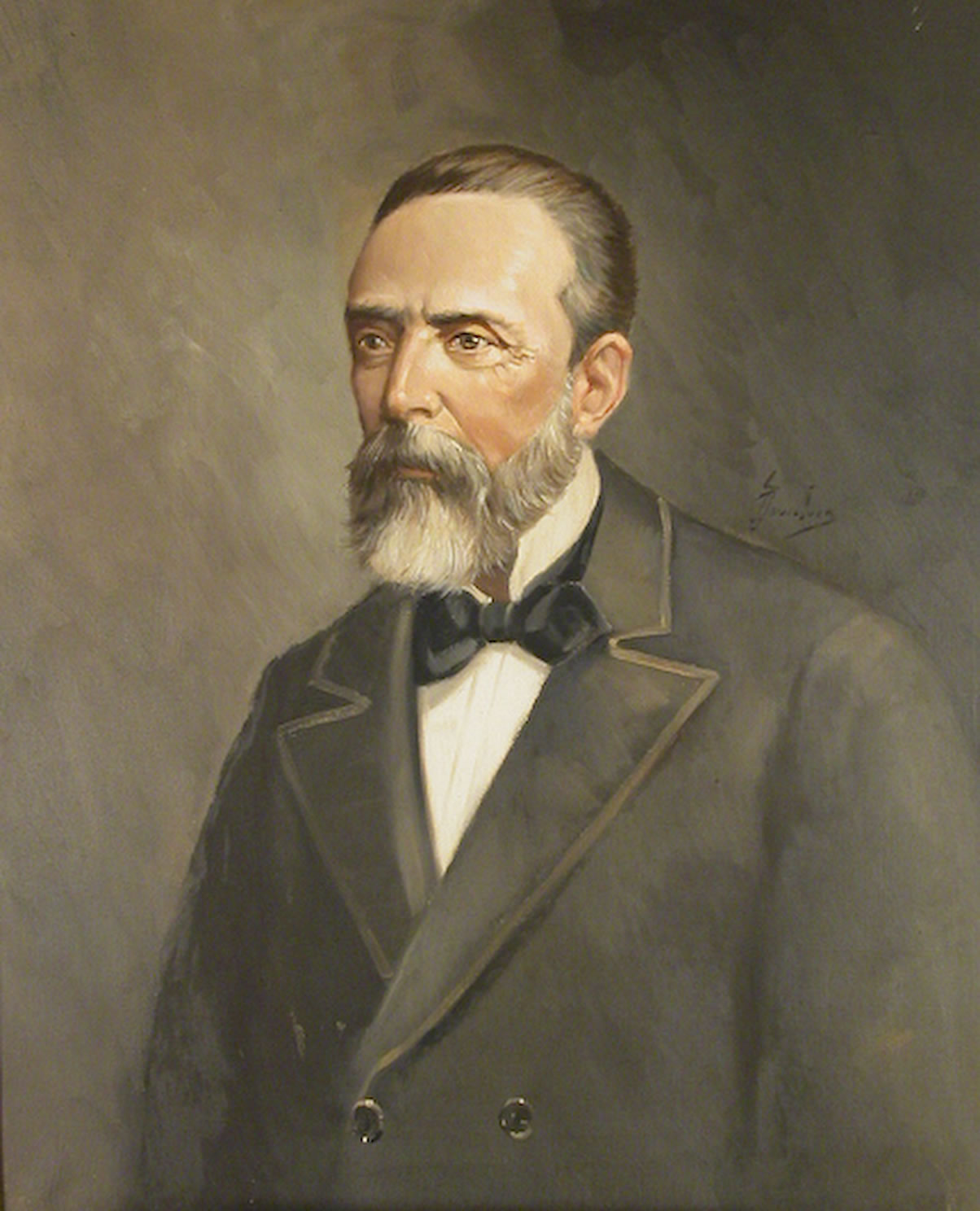 José Vicente Barbosa du Bocage (1823-1907)